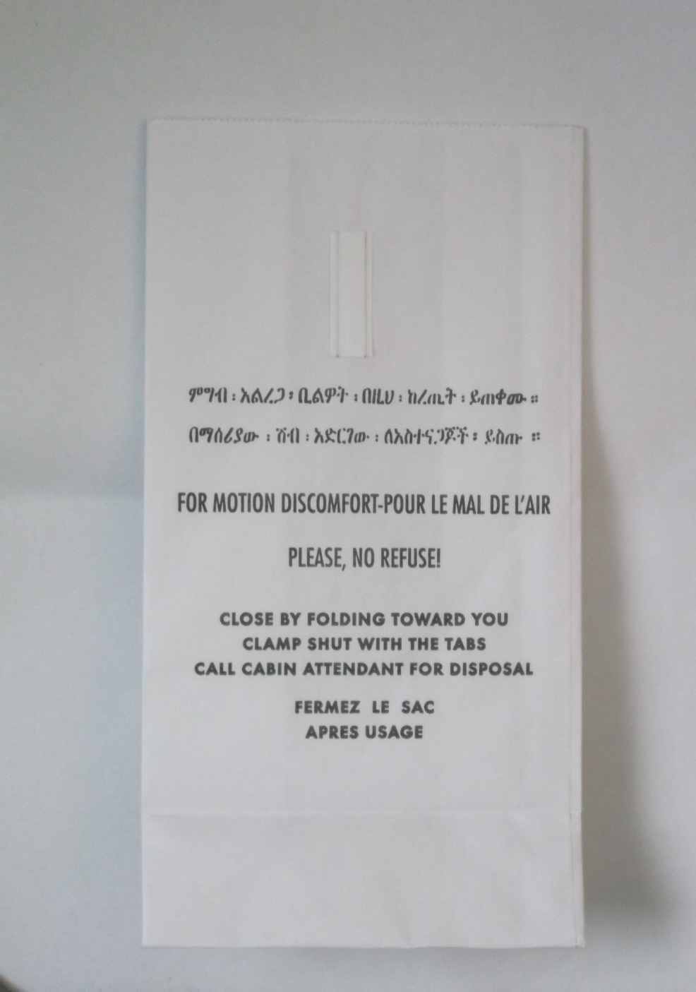 Airsickness bag used by Ethiopian Airlines.